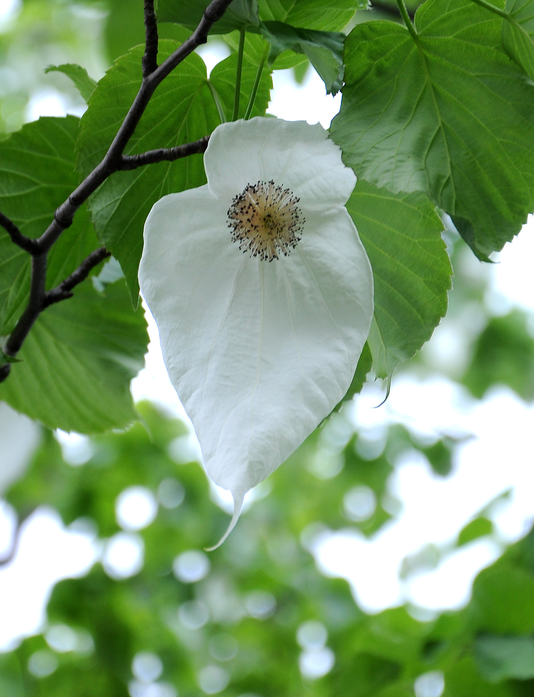 Dove tree